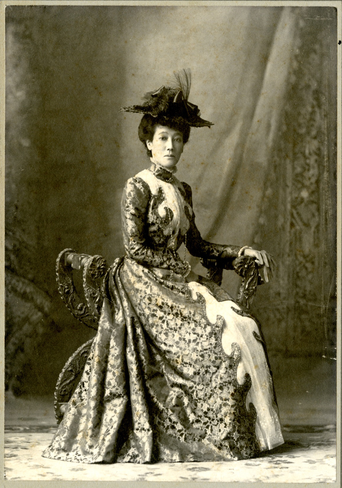 Princess Sutematsu Ōyama (1860–1919)